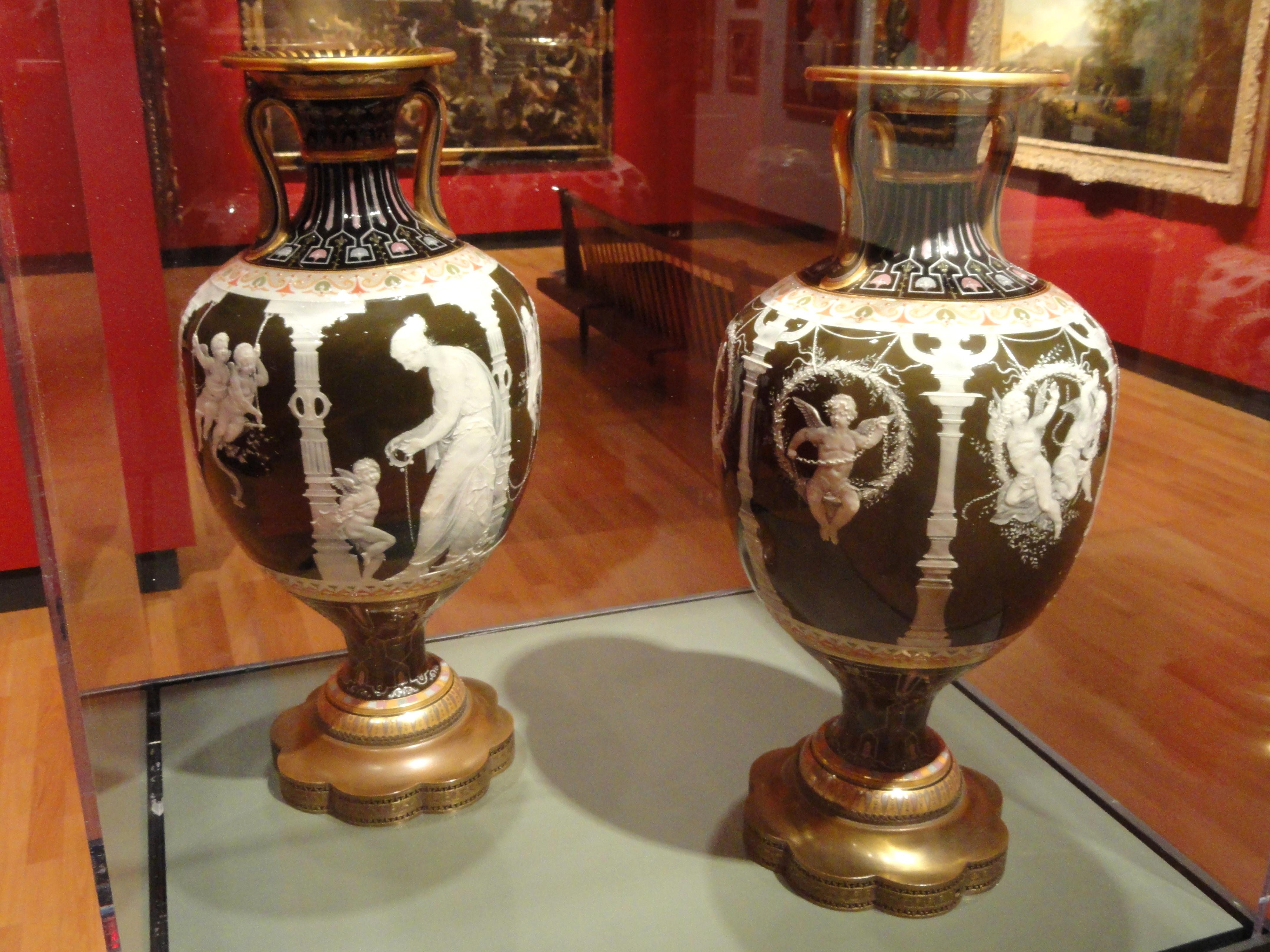 Exhibit in the Mount Holyoke College Art Museum, Mount Holyoke College, South Hadley, Massachusetts, USA. This artwork is old enough so that it is in the public domain.